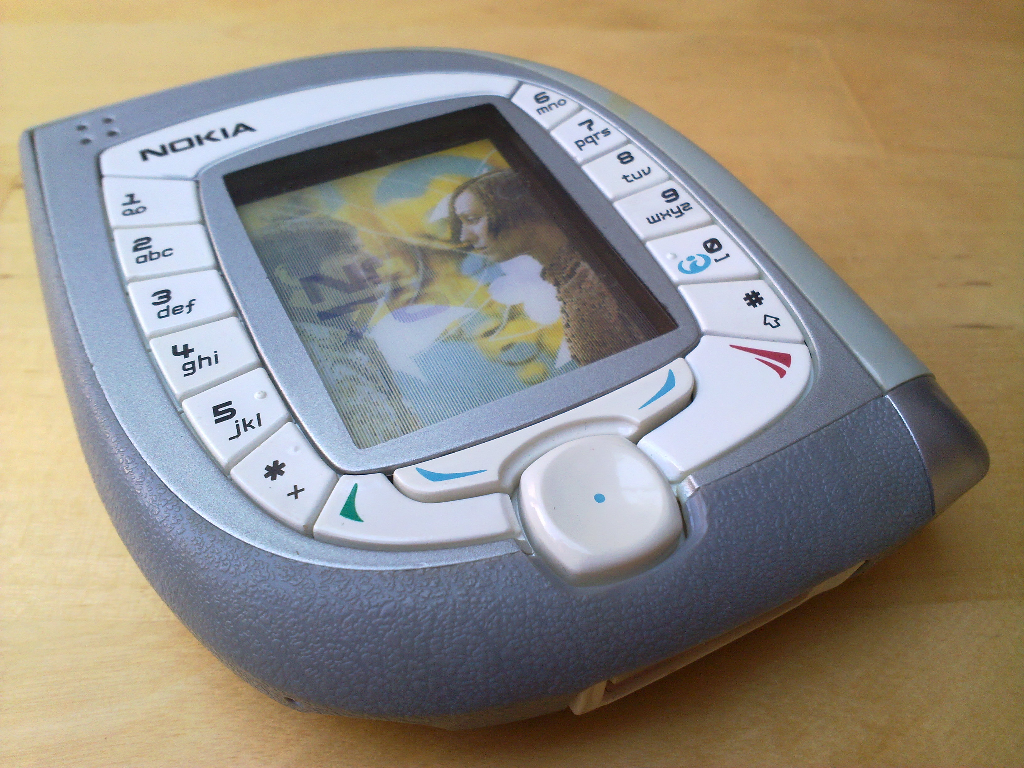 A Nokia 7600 mobile phone, released in 2003